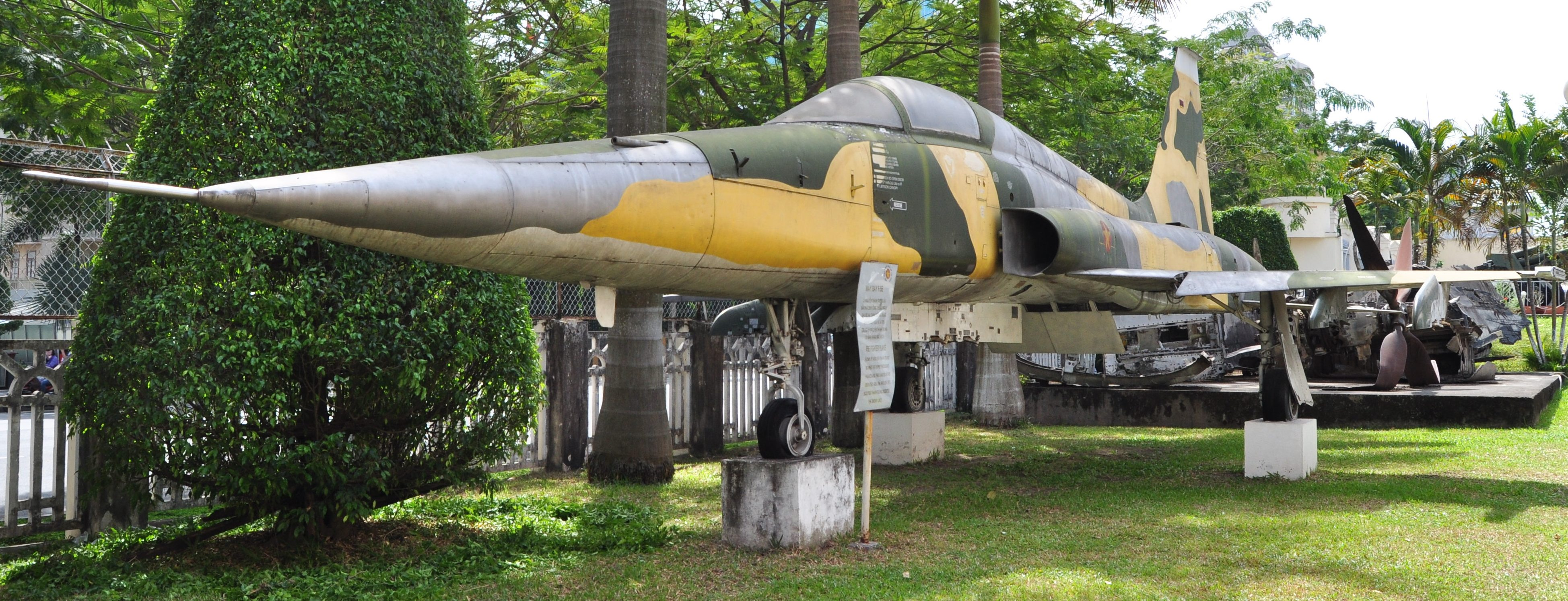 F5E FIGHTER PLANE at Museum of Ho Chi Minh Campaign, HCMC, Vietnam. Flown by Nguyen Thanh Trung. He bombed the South Vietnam's president palace and then landed in the North Vietnam controlled area on April 8th 1975. (Nguyen Thanh Trung deserted the South Vietnam Air Force.)